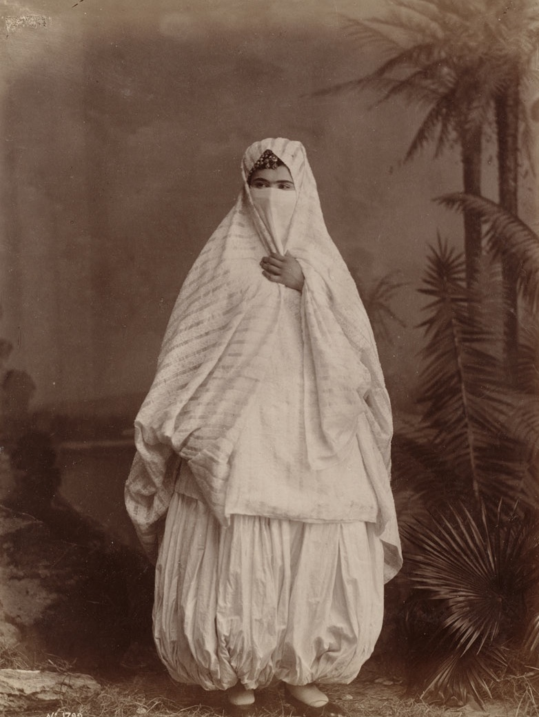 BPLDC no.: 08_04_000358 Page Title: Algerian woman's outdoor costume Collection: Tupper Scrapbooks Collection Album: Volume 1: Algeria. Call no.: 4098B.104 v1 (p. 34) Creator: Tupper, William Vaughn Genre: Scrapbooks; Albumen prints Extent: 1 photographic print mounted on page : albumen ; page 33 x 39 cm. Description: Scrapbook page contains one photograph showing an Algerian woman in traditional attire. Notes: Page description supplied by cataloger, derived from captions and/or annotated information.; Caption on image: No. 1792 BPL Department: Print Department Rights: No known restrictions. Flickr data on 2011-08-15: Camera: Sinar AG Sinarback 54 FW, Sinar m License: CC BY 2.0 User: Boston Public Library BPL